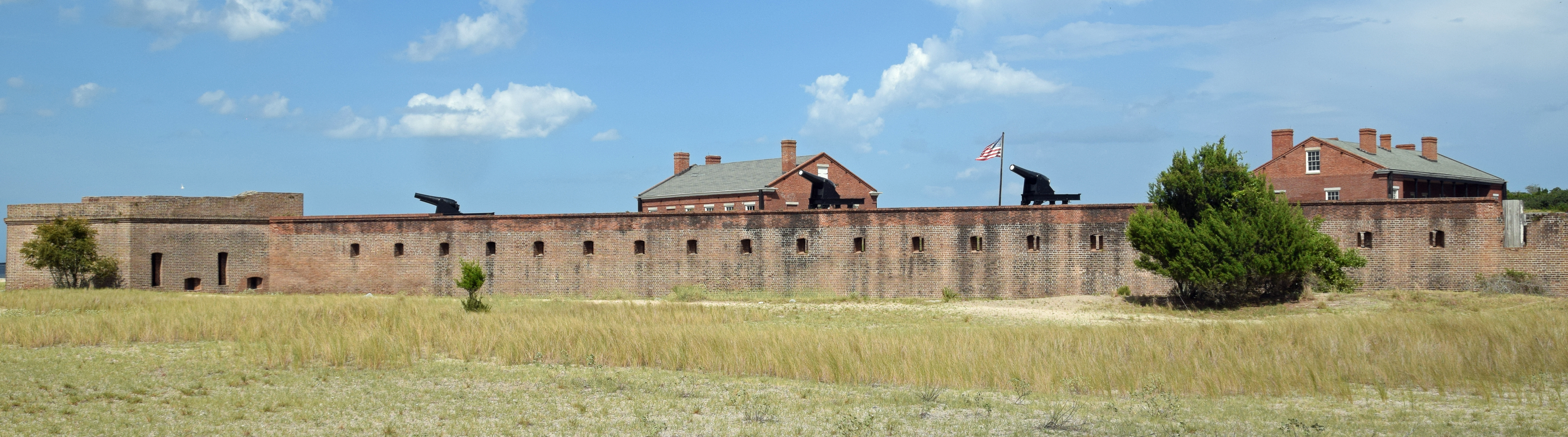 Fort Clinch on Amelia Island, Florida, U.S. - one of the walls facing Cumberland Sound